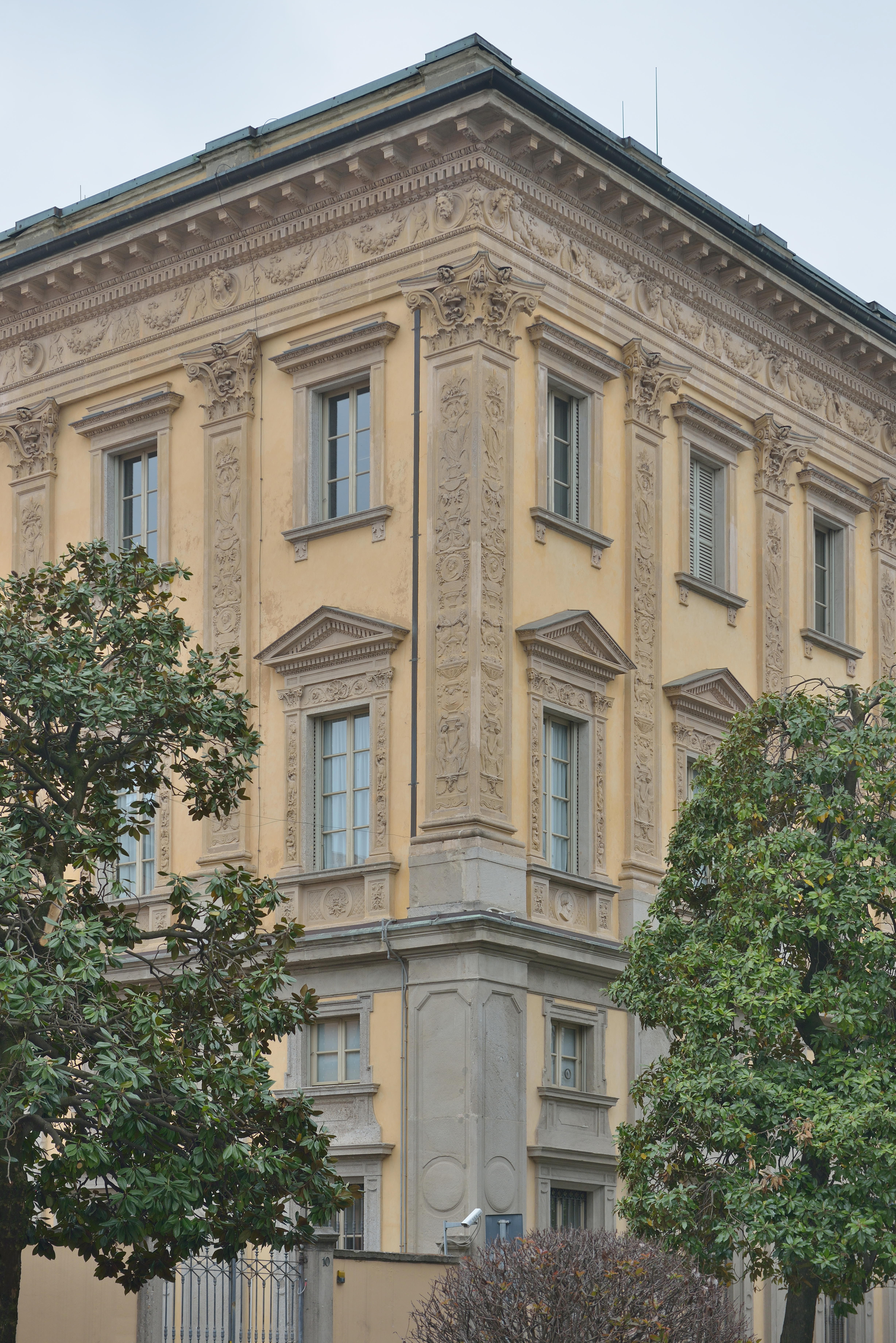 Detail of the Palace of the Province of Bergamo